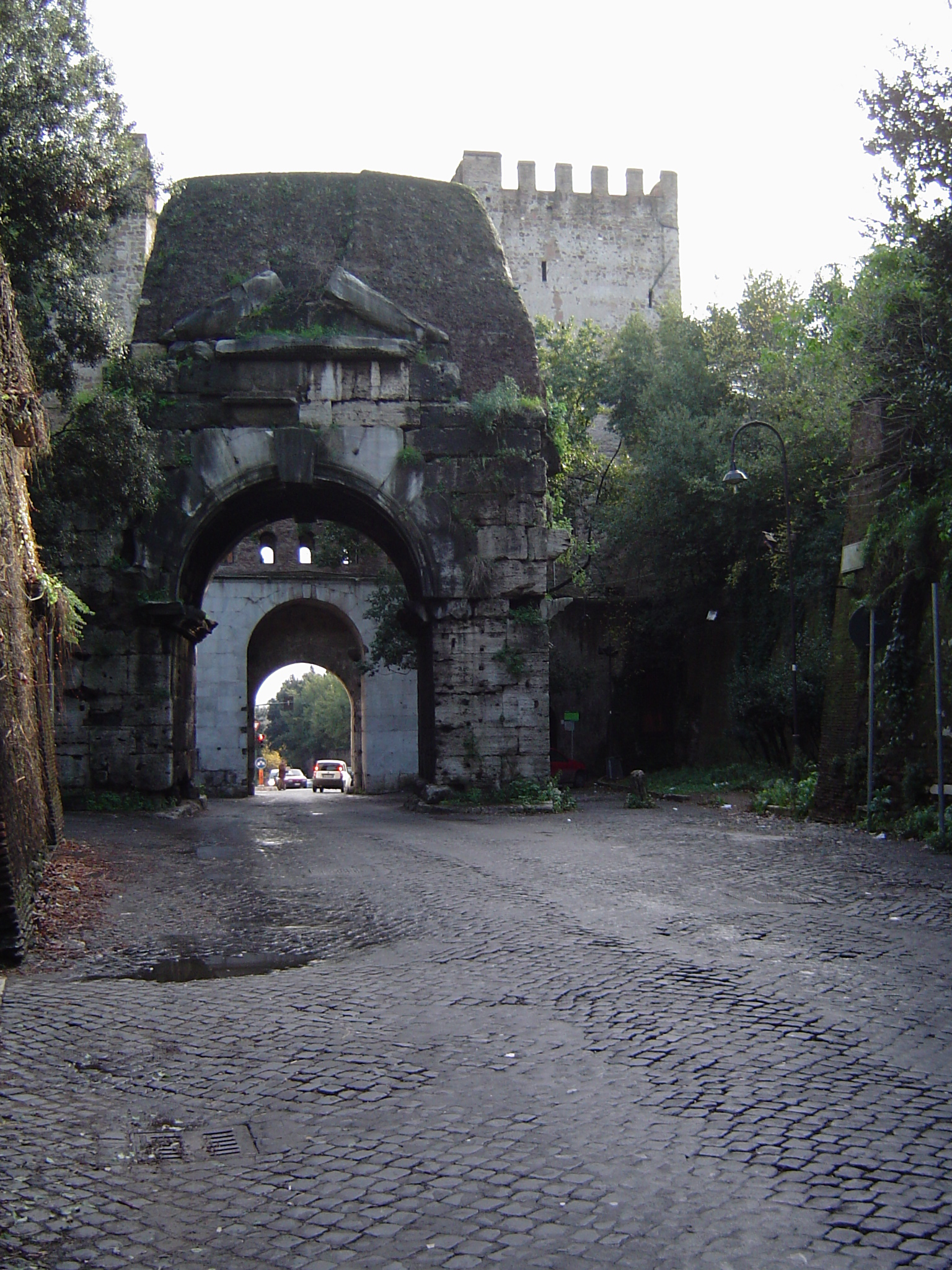 Arch of Drusus, Rome, Italy Made by Joris van Rooden, the Netherlands on 03-01-2006